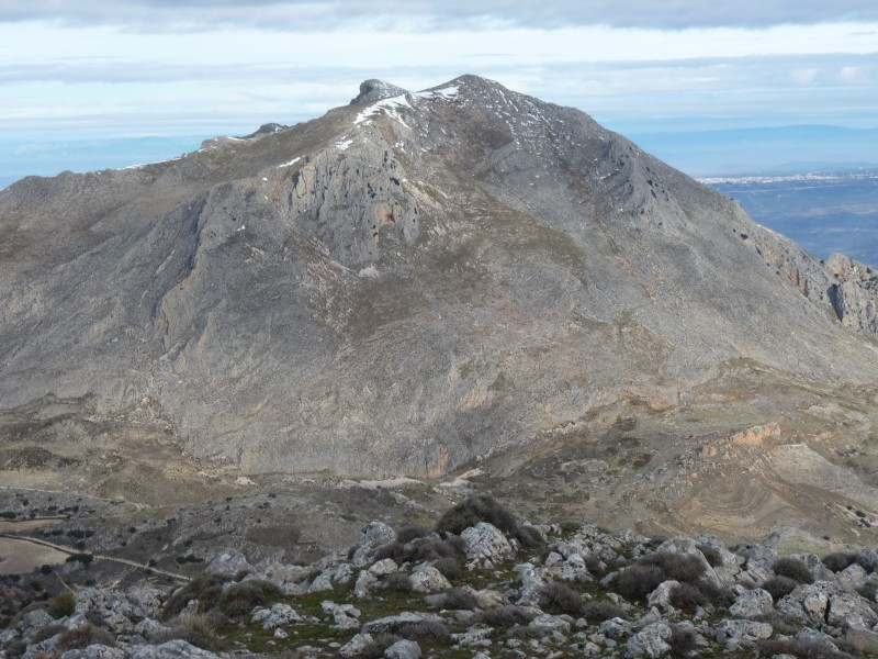 Aznaitín Peak